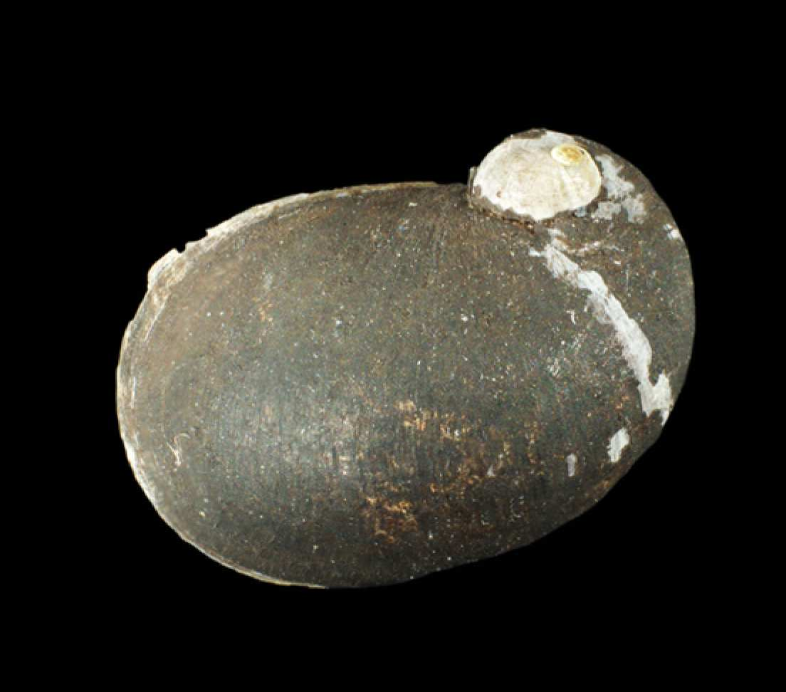 Photo of a shell of Thedoxus fluviatilis. Locality: Nebel, Güstrow, Mecklenburg-Vorpommern, Germany.